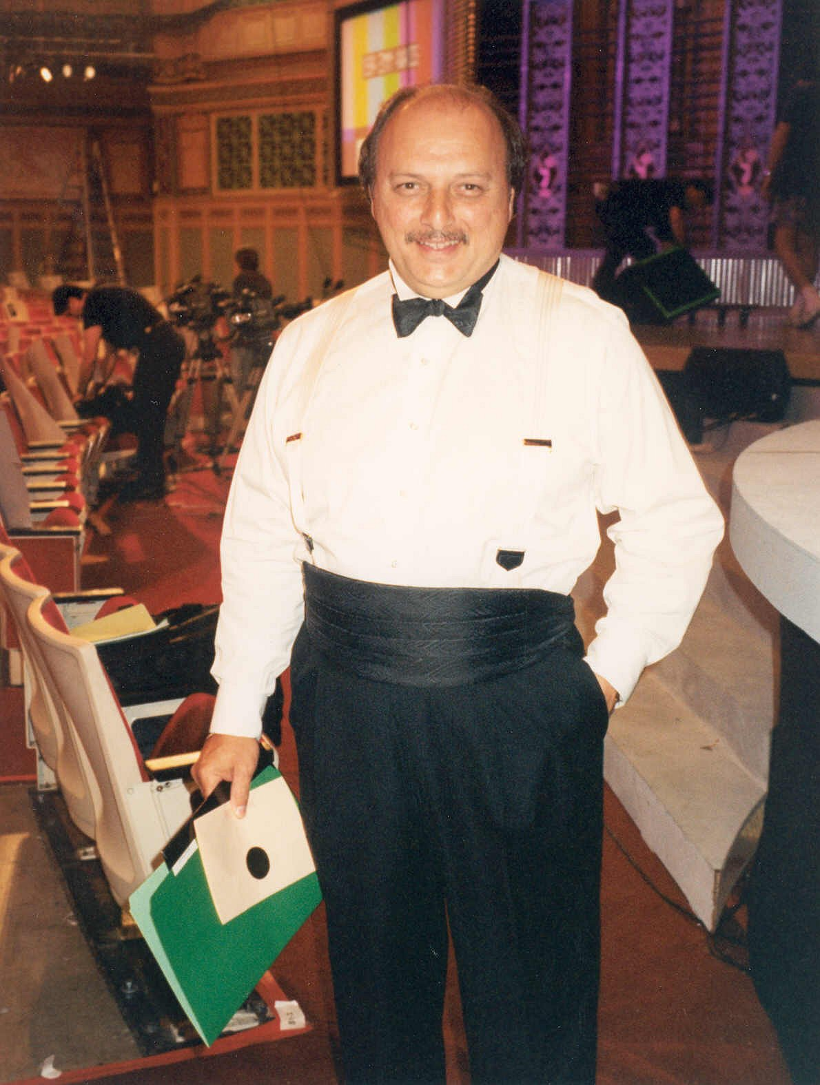 Photo of Dennis Franz at an Emmy Awards rehearsal.